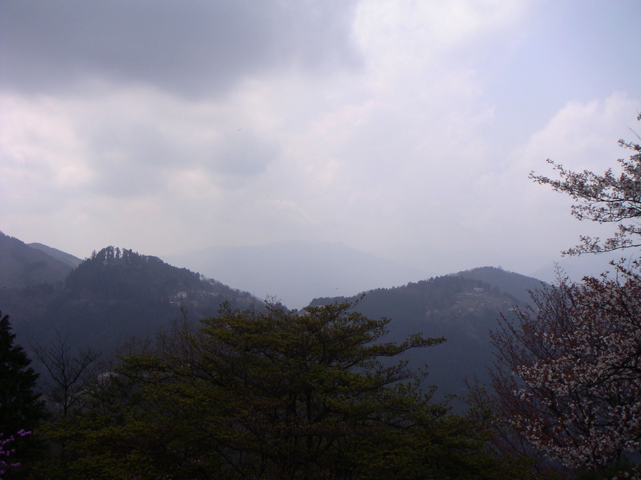 Mt. Mitake and Mt. Ōtsuka, Ōme, Tokyo